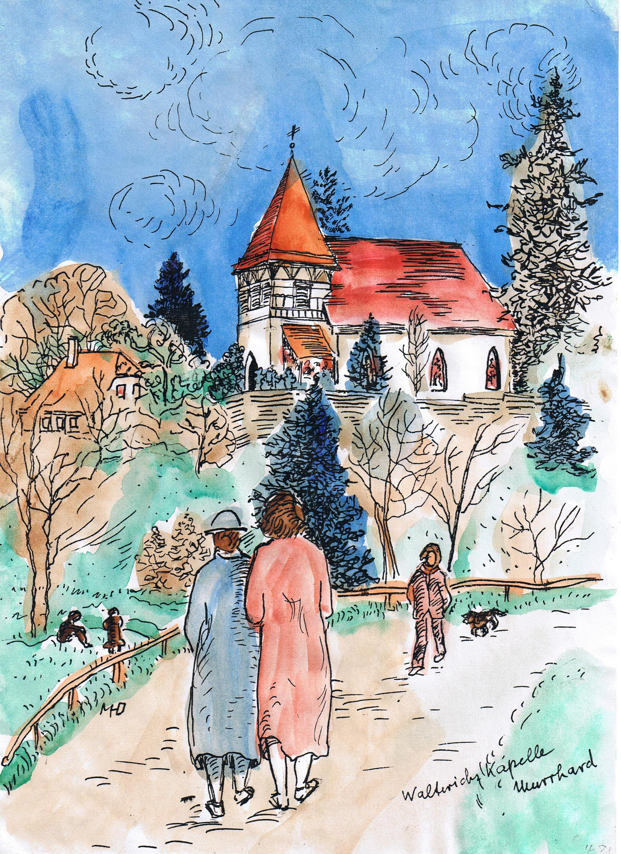 Murrhardt, Walterichskapelle, water color